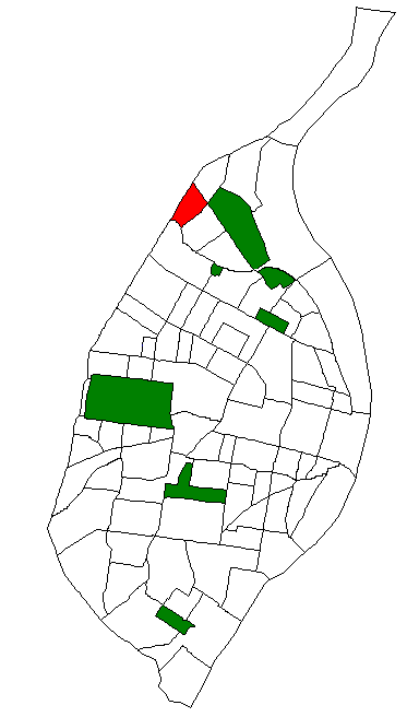 Map of St. Louis Neighborhood #76 (Walnut Park West)